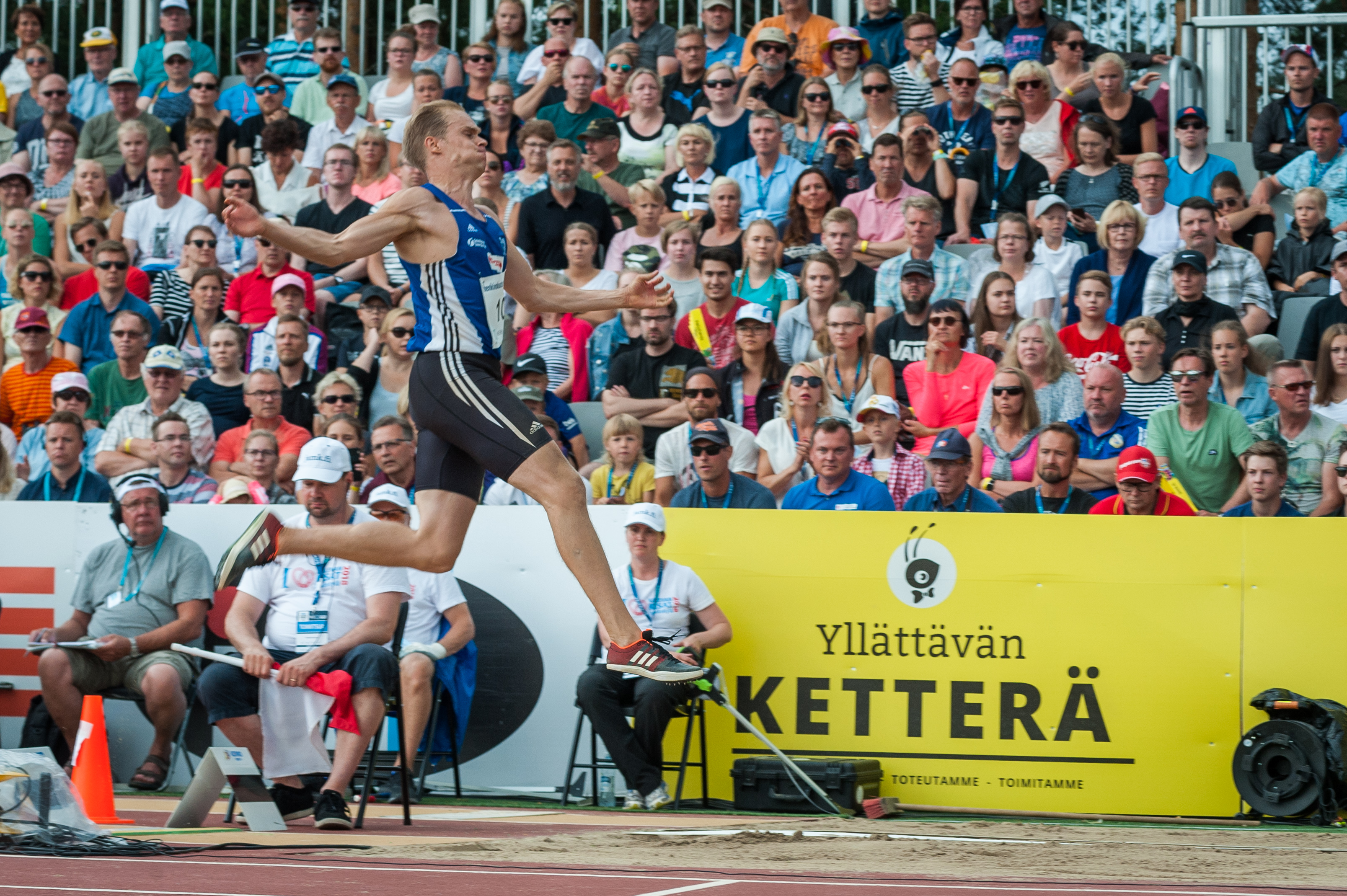 Men's long jump competition at the 2018 Kalevan Kisat, the Finnish championships in athletics, in Jyväskylä, Finland.